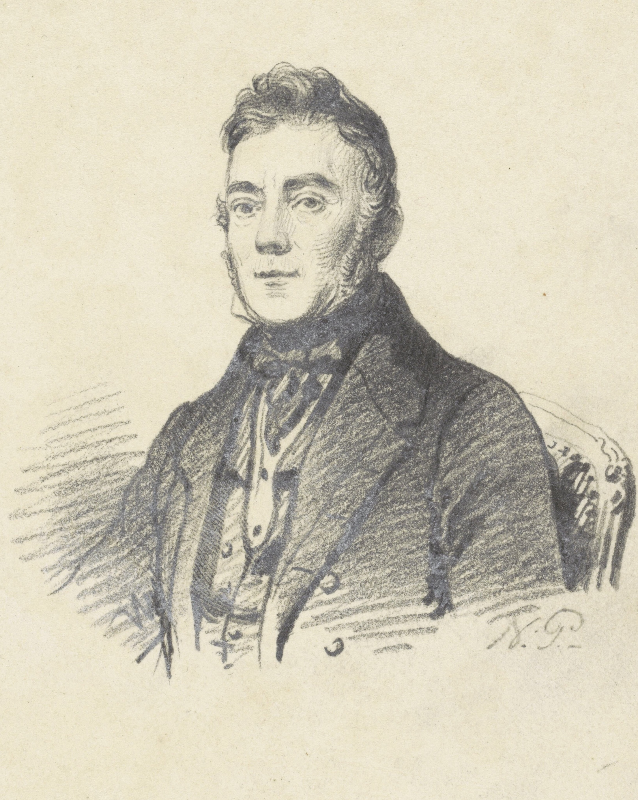 Portret van George Pieter Westenberg